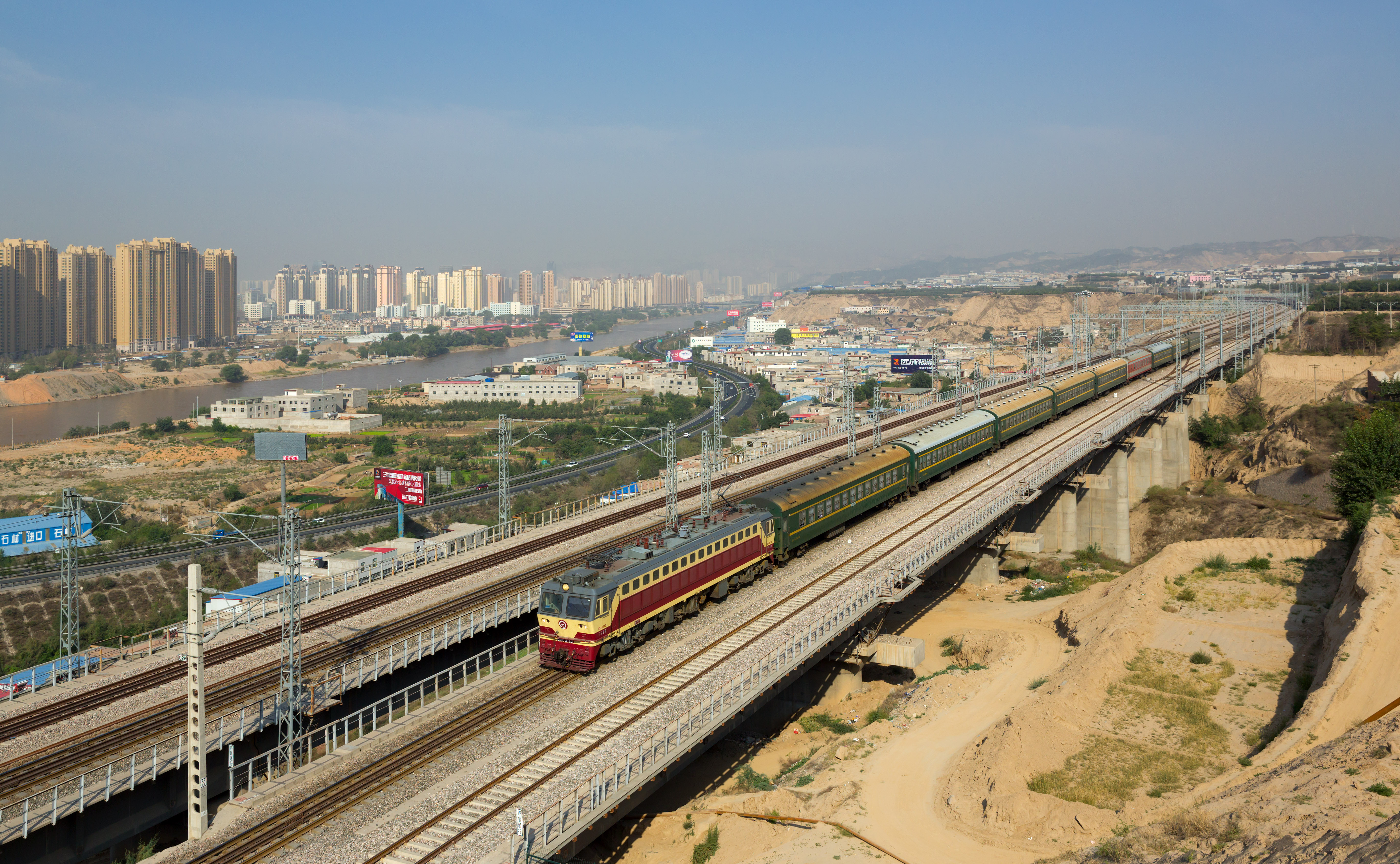 China Railways SS7C 0113 with a passenger train above Lanzhou, China.